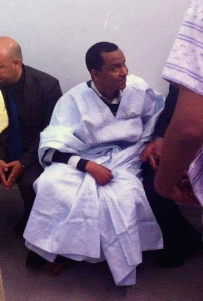 "A rare photo of M’kheitir since his arrest, at the appeals court in April 2016"